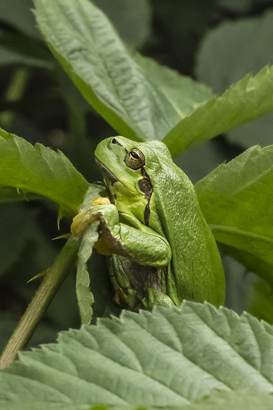 Hyla arborea in the Aamsveen, The Netherlands